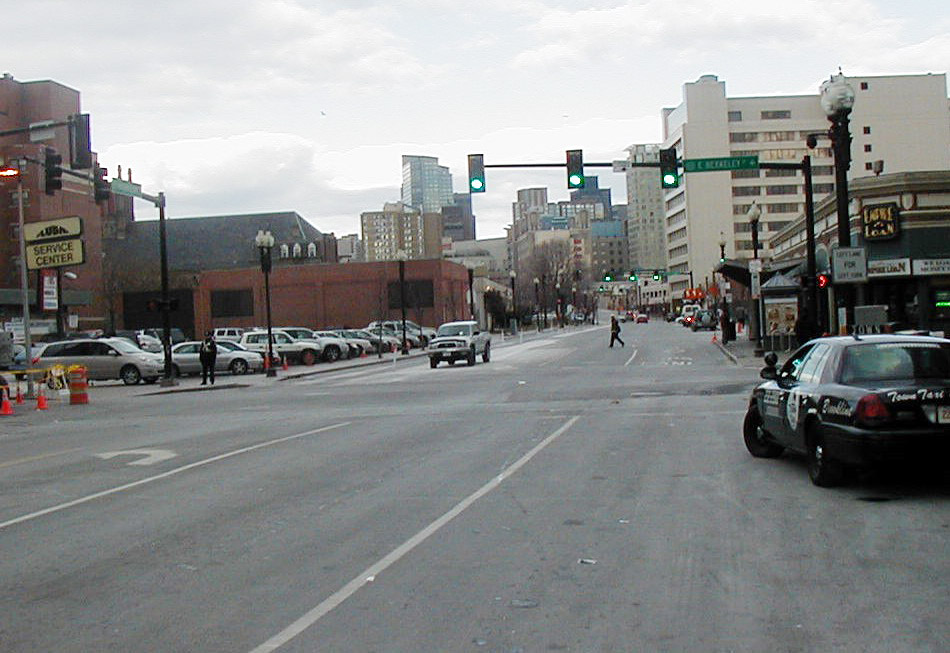 This is the site of the Town Gate and fortifications on Boston Neck. This view is from Washington Street (which was called Orange Street) at the East Berkeley Street intersection. Boston is in the background. The old Dover Street elevated station once stood at this location. Photo taken January, 2007.